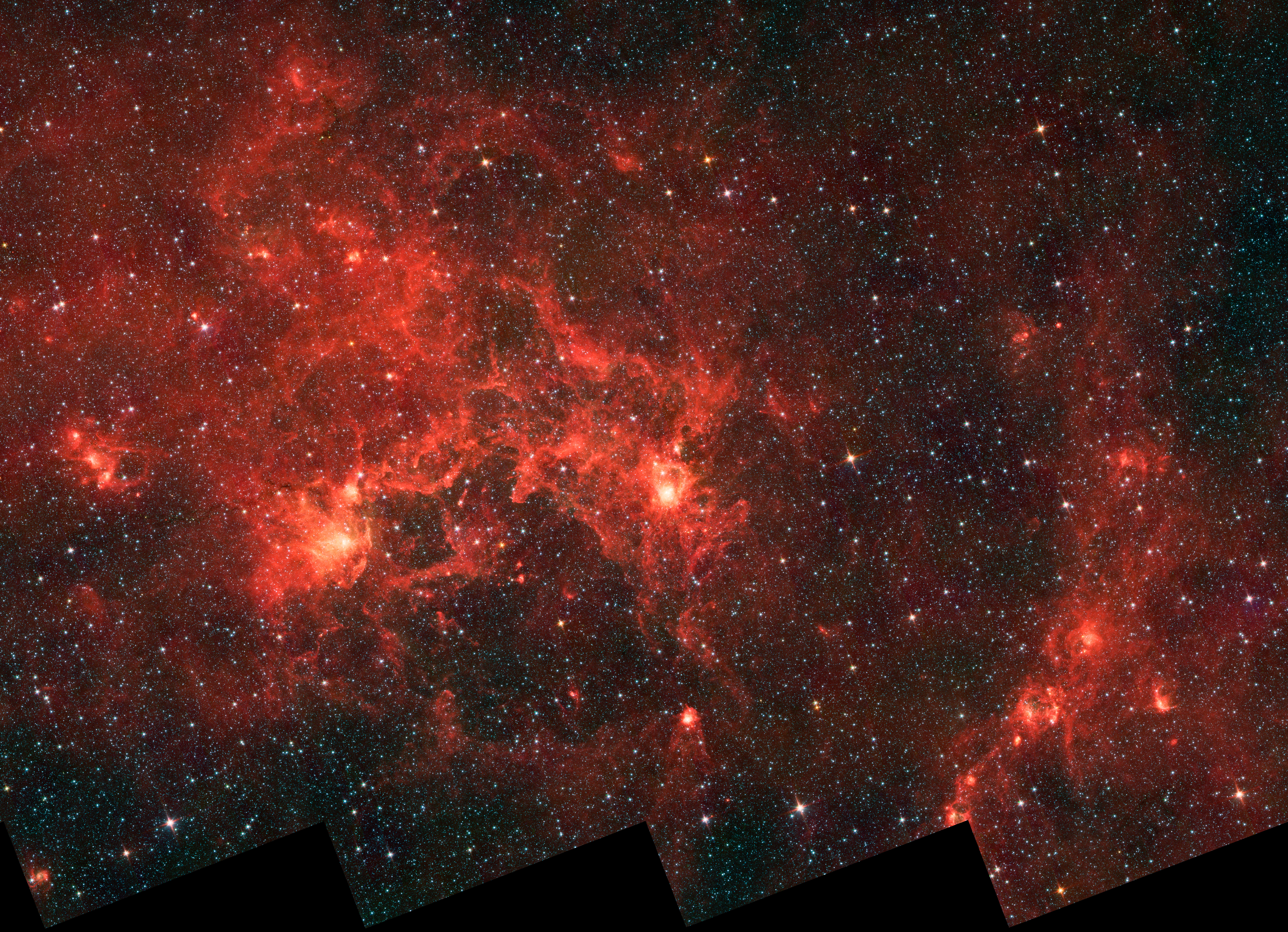 This infrared image from NASA's Spitzer Space Telescope shows the nebula nicknamed "the Dragonfish." This turbulent region, jam-packed with stars, is home to some of the most luminous massive stars in our Milky Way galaxy. It is located approximately 30,000 light-years away in the Crux constellation. The massive stars have blown a bubble in the gas and dust, carving out a shell of more than 100 light-years across (seen in lower, central part of image). This shell forms the "toothy mouth" of the Dragonfish, and the two bright spots make it up its beady eyes. The infrared light in this region is coming from the gas and dust that are being heated up by the unseen central cluster of massive stars. The bright spots along the shell, including the "eyes," are possible smaller regions of newly formed stars, triggered by the compression of the gas and dust by winds from the central, massive stars. Infrared light in this image was captured by the infrared array camera on Spitzer, at wavelengths of 3.6 microns (blue); 4.5 microns (green); and 8.0 microns (red). The data were captured before Spitzer ran out of its liquid coolant in 2009, and began its "warm" mission.